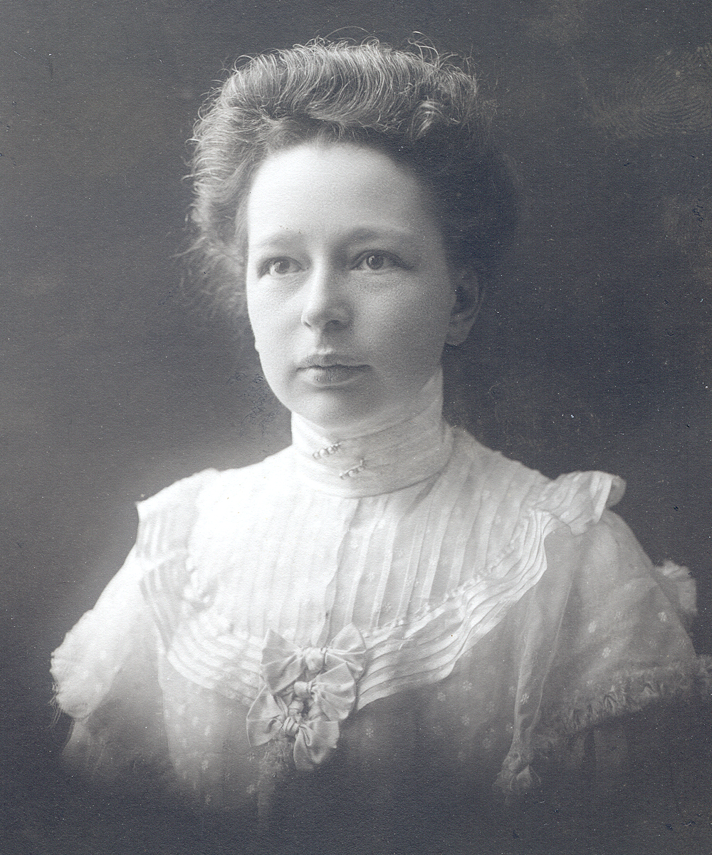 Studio portrait of Elisabeth Tamm, member of Sweden's parliament 1922-1924. Ferdinand Flodin (1863-1935) established his photo studio at Biblioteksgatan in Stockholm in 1909. Based on the subjects age, this photo appear to have been taken in 1909 or in the 1910s.